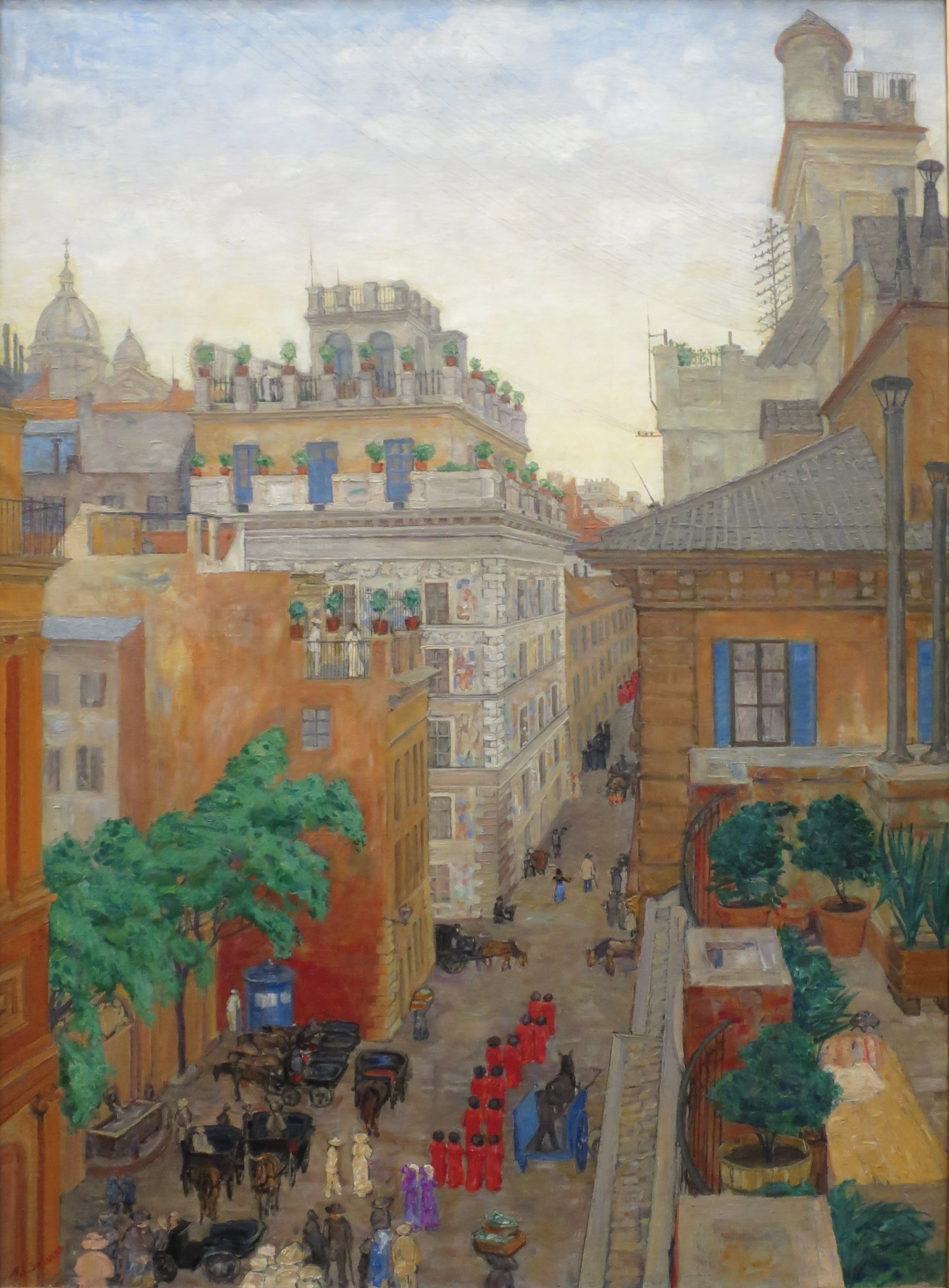 Via Bocca di Leone, Rome by Anders Svarstad, 1908, oil on canvas, Bergen Kunstmuseum